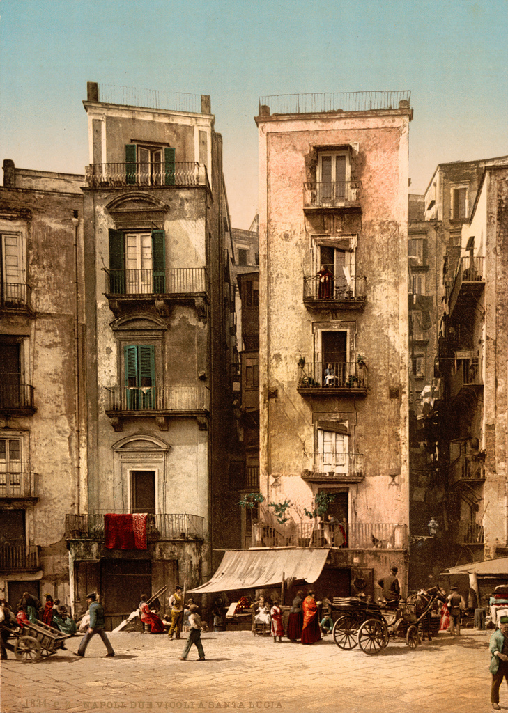 Borgo Santa Lucia (Naples) in Italy. Photochrom print by Photoglob Zürich, between 1890 and 1900. From the Photochrom Prints Collection at the Library of Congress More photochroms from Italy | More photochrom prints [PD] This picture is in the public domain.